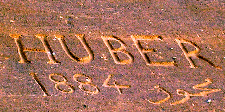 Inscriptions engraved on the rocks of Mahajah, Saudi Arabia